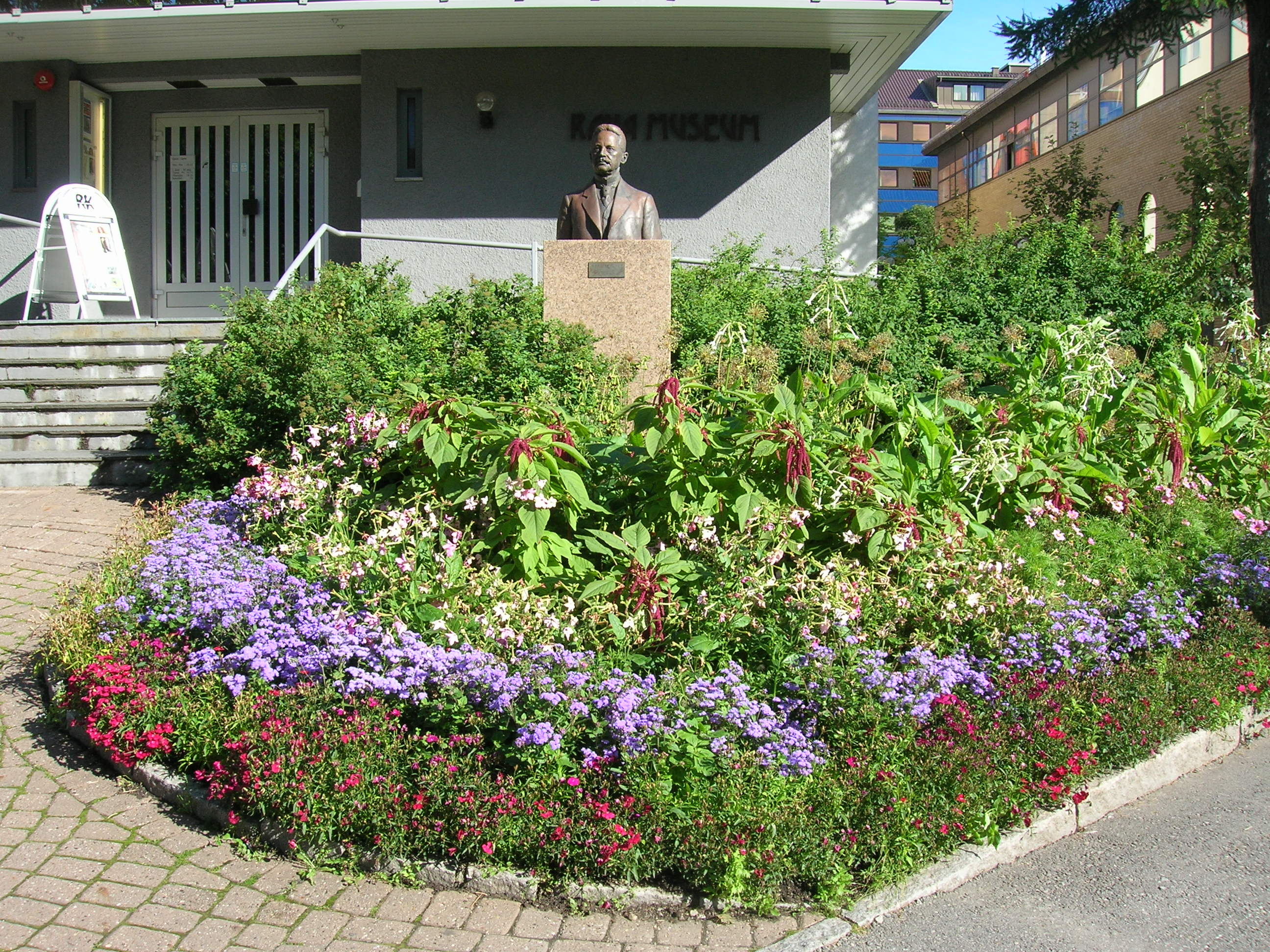 Mo i Rana. Museumsbygningen i sentrum (kulturhistorisk avdeling).Photo taken on August 24, 2005 with a NIKON Coolpix 5600 5,1 Megapixel camera.